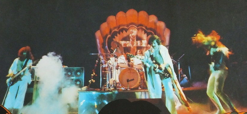 Black Sabbath performing live in 1976.